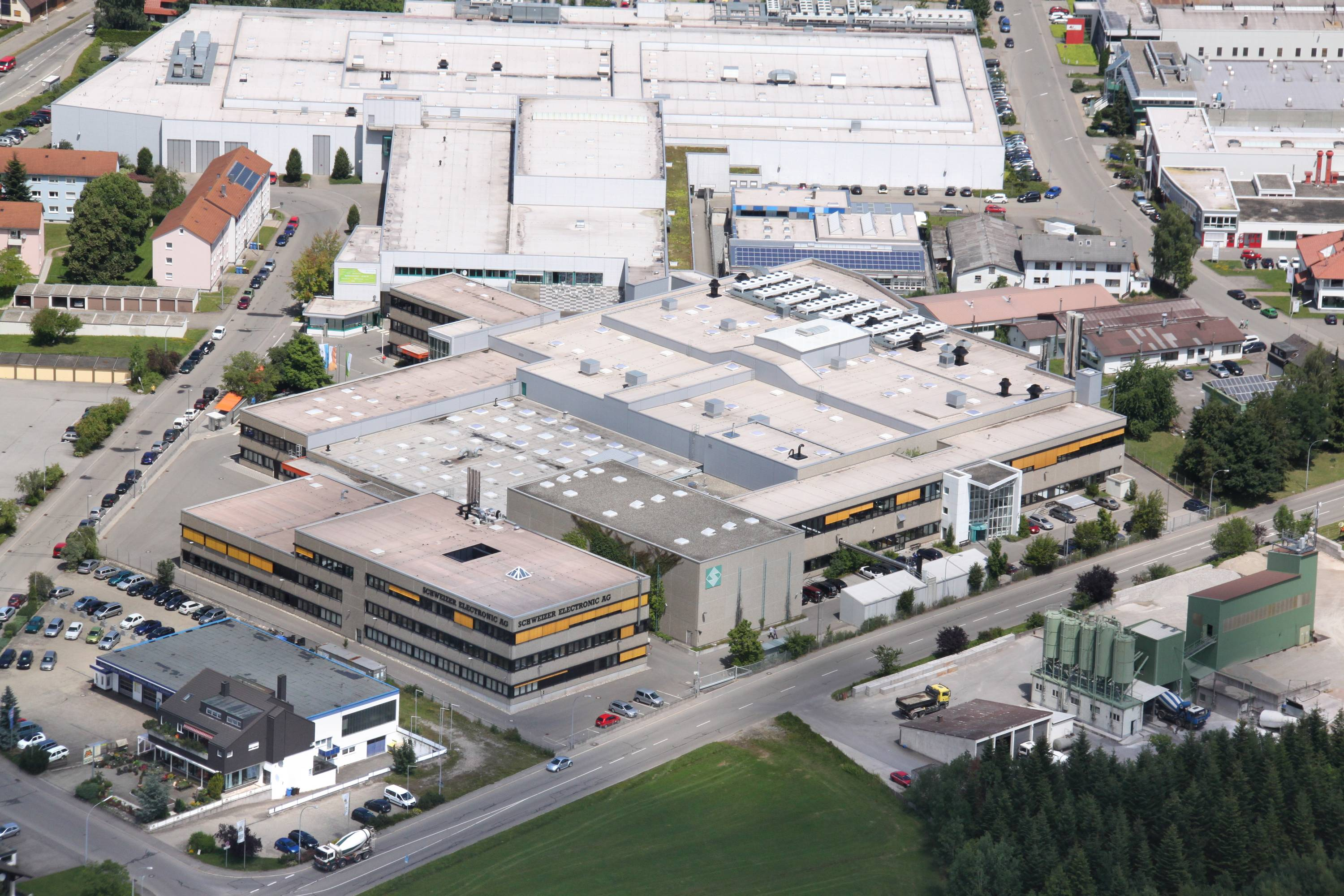 Picture of Schweizer Electronic AG, Schramberg, taken in 2011